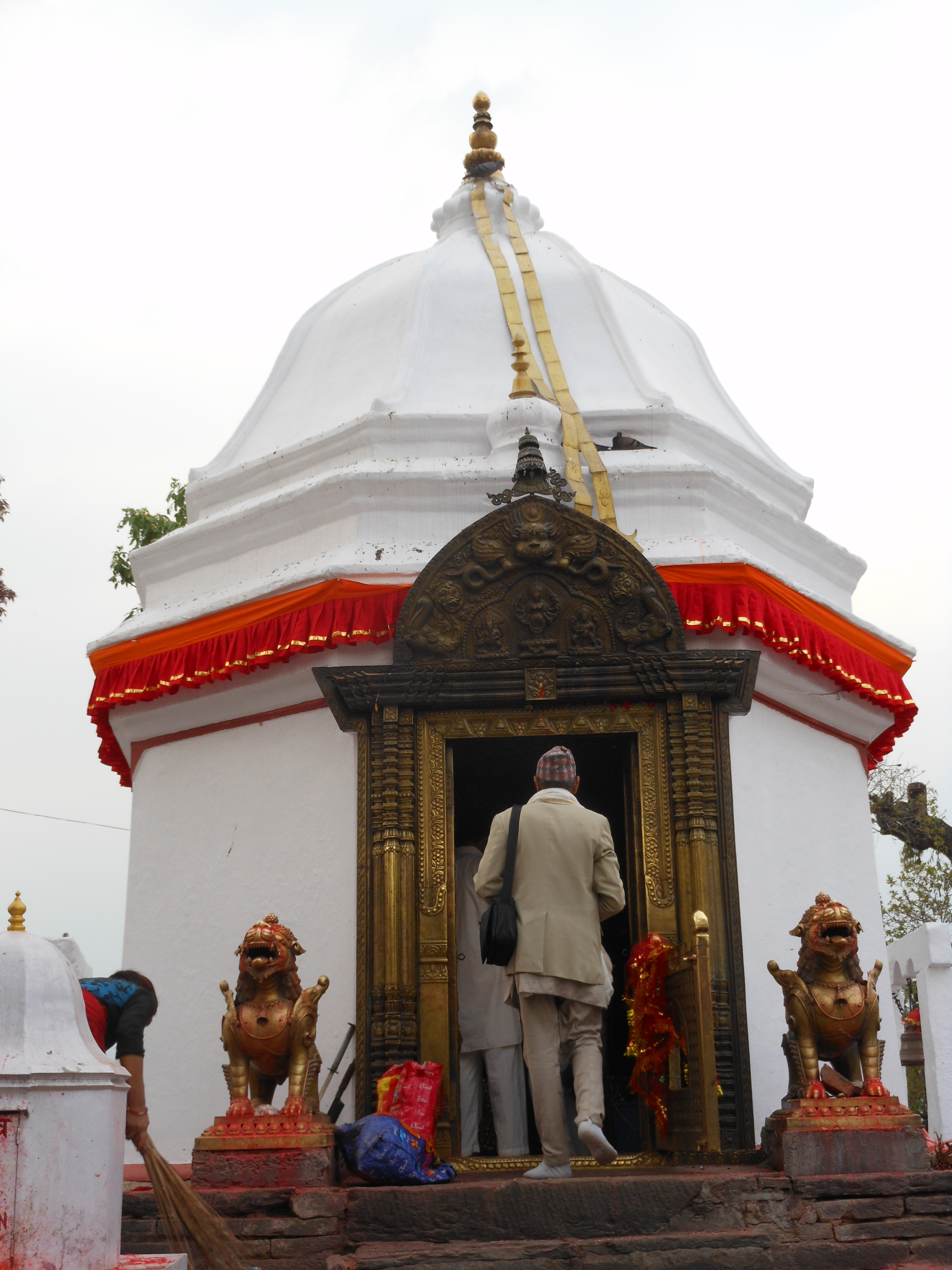 Bindabashini Temple in Pokhara